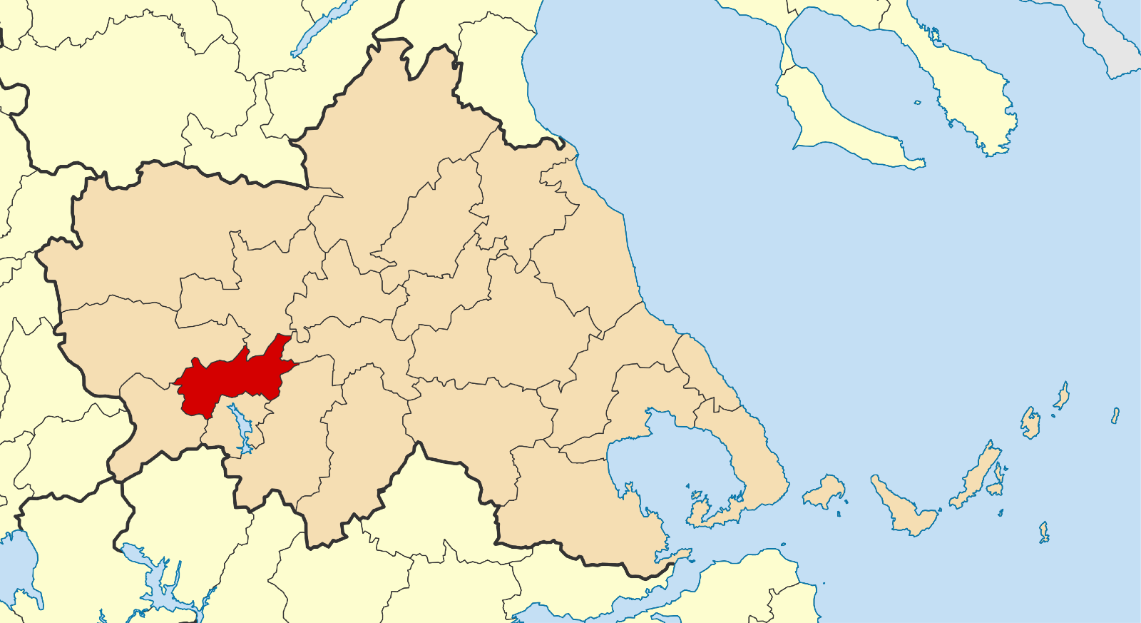 Locator map for Mouzaki municipality in Greek region Thessaly (2011)